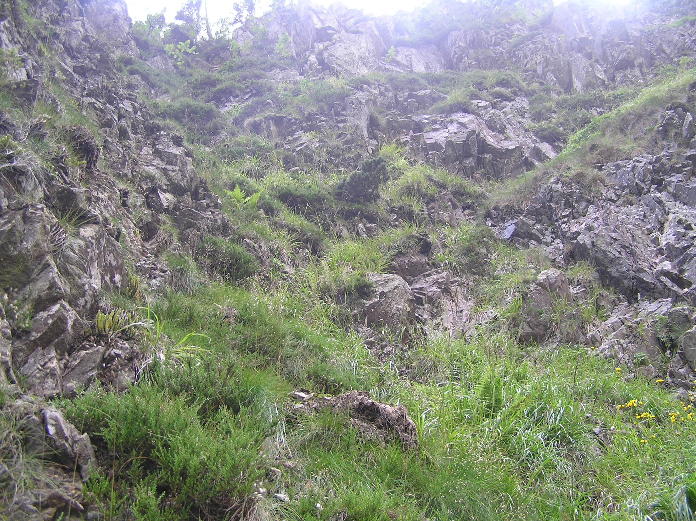 Agrostion alpinae, Čertova zahrádka in the Krkonoše mountains, Czech Republic